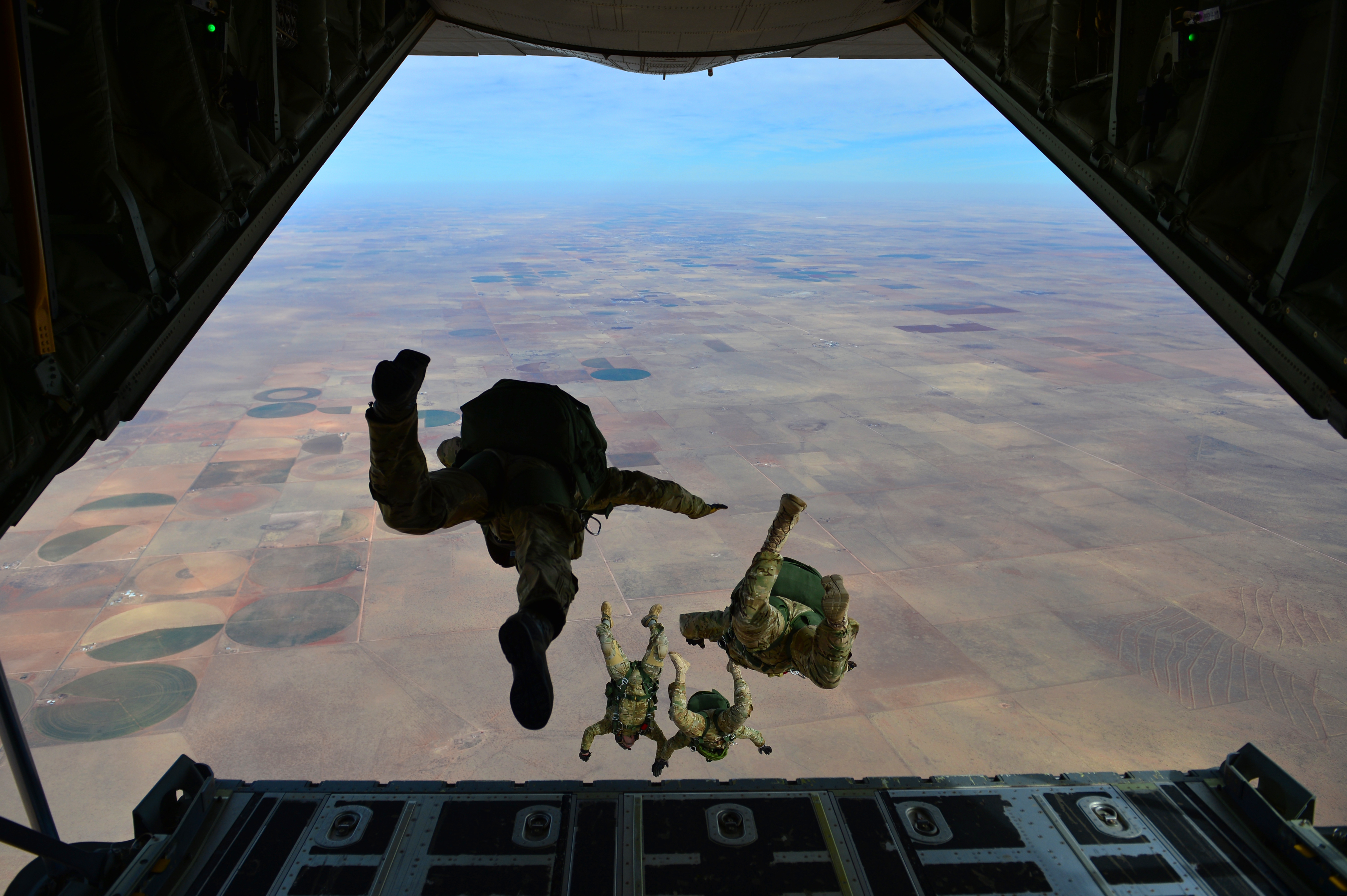 Members from the 26th Special Tactics Squadron leap from an MC-130J Commando II during a Military Free Fall jump Feb. 28, 2014 at Melrose Air Force Range, N.M. Two members of the 26th Special Tactics Squadron, joined by two other special tactics members, conducted the first Military Free Fall jump in conjunction with one of the many aerial assets maintained at Cannon. (U.S. Air Force photo/ Senior Airman Eboni Reece)